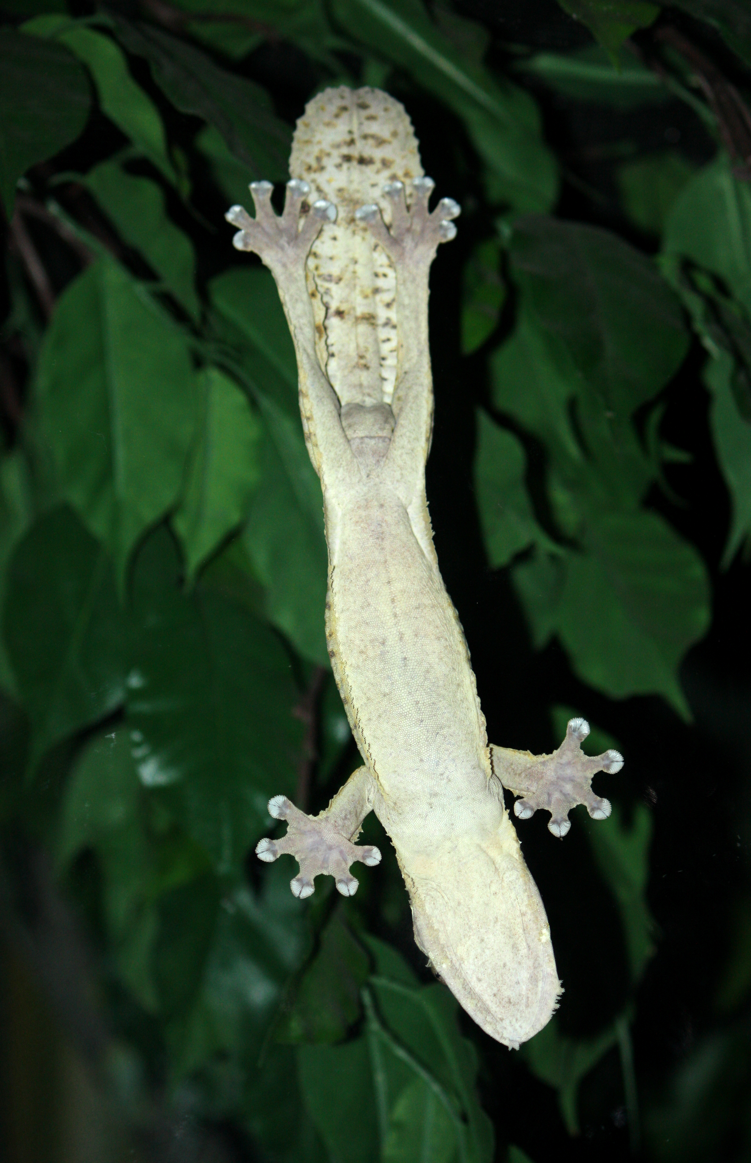 Ventral surface of Leaf-tailed Gecko (Uroplatus henkeli), hanging from inside of glass case. Bronx Zoo, New York City.